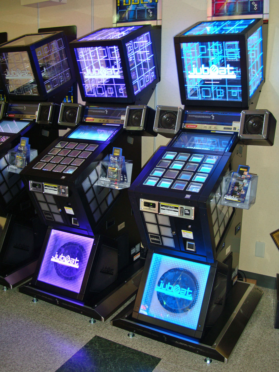 "jubeat" Arcade game cabinet.